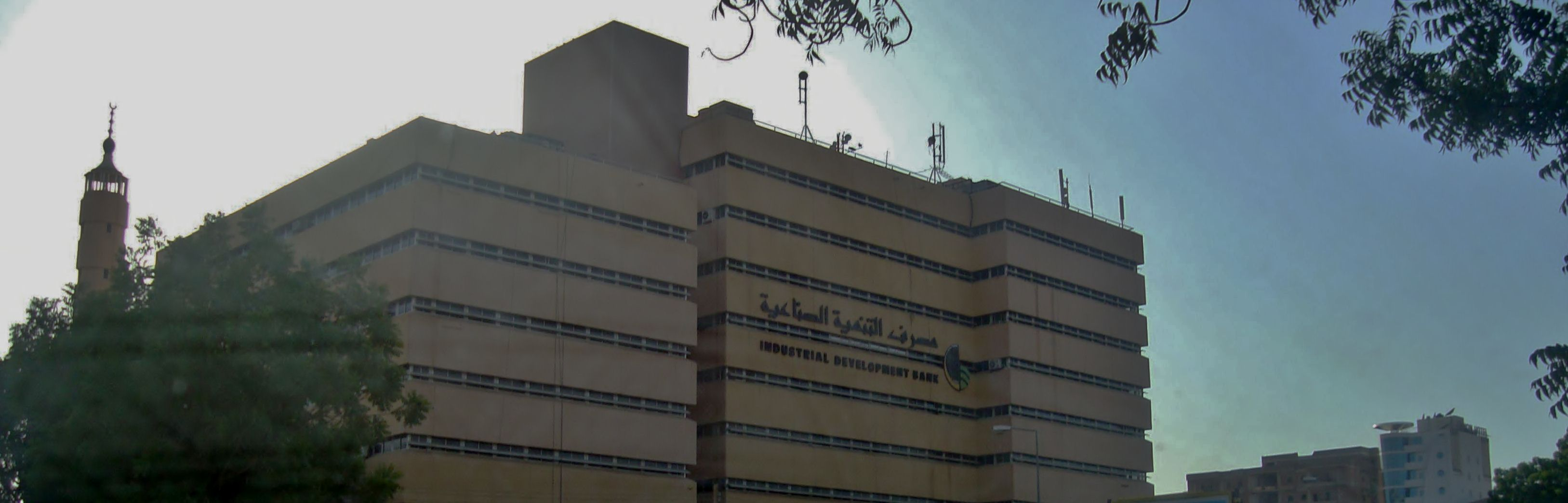 Amart - Street (17) – Khartoum - Sudan